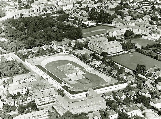 Ordryp Velodrome in Ordrup, Copenhagen, Denmark